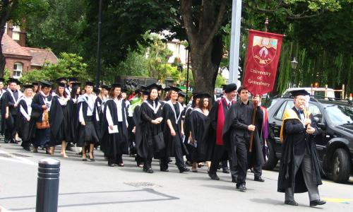 Academic procession at the University of Canterbury graduation ceremony 2004. Photo taken by User:Clawed.